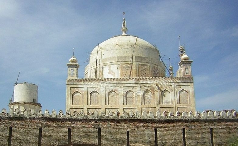 Tomb of Muhammad Zaman of Luari, as seen from south.